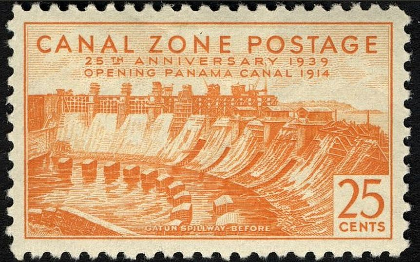 Canal Zone Postage stamp, 1939 Issue, 25c